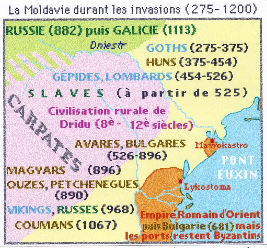 Map of Moldova/Moldavia during the late antiquity & early middle-ages